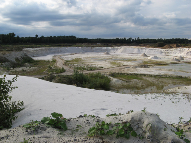 Sandgrube Uhry 1